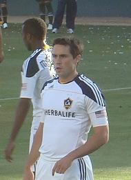 this picture of Todd Dunivant was taken at the LA Galaxy vs Boca Jrs game